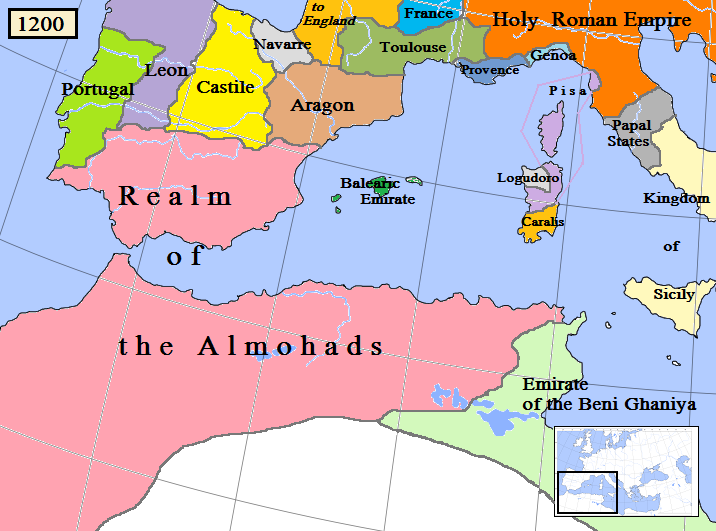 Map of the Almohad dynasty/empire in North Africa/Iberia, AD 1200. (Partially based on Wikipedia Commons map "File:NE 1200ad.jpg".)